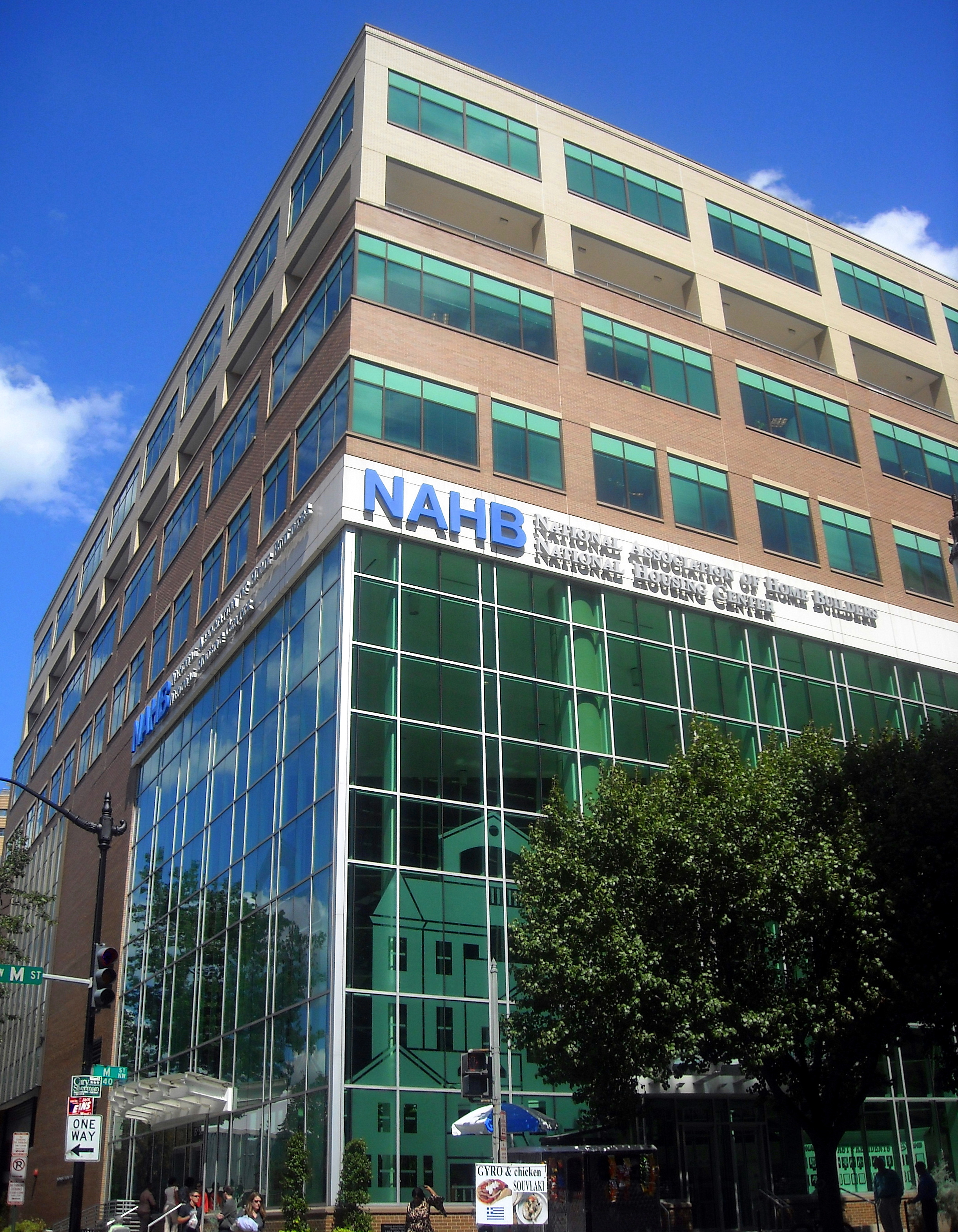 The National Housing Center, headquarters for the National Association of Home Builders, located at 1201 15th Street, N.W., in the Logan Circle neighborhood of Washington, D.C.